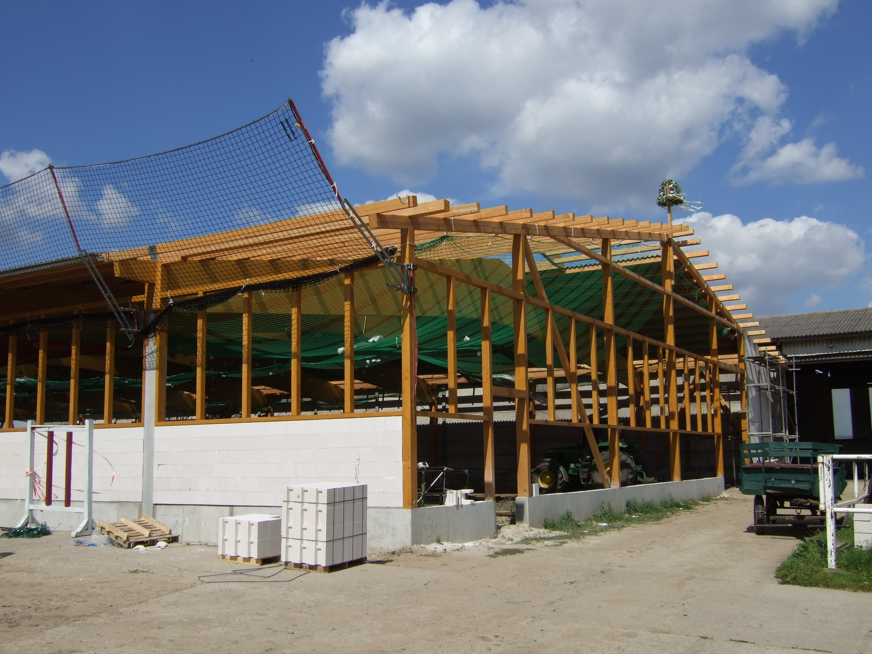 Riding hall in Pritzhagen part of Bollersdorf, Brandenburg, Germany. Example for modern timber framing.